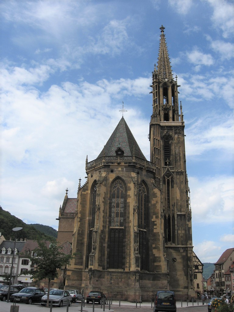 This one's a beauty.